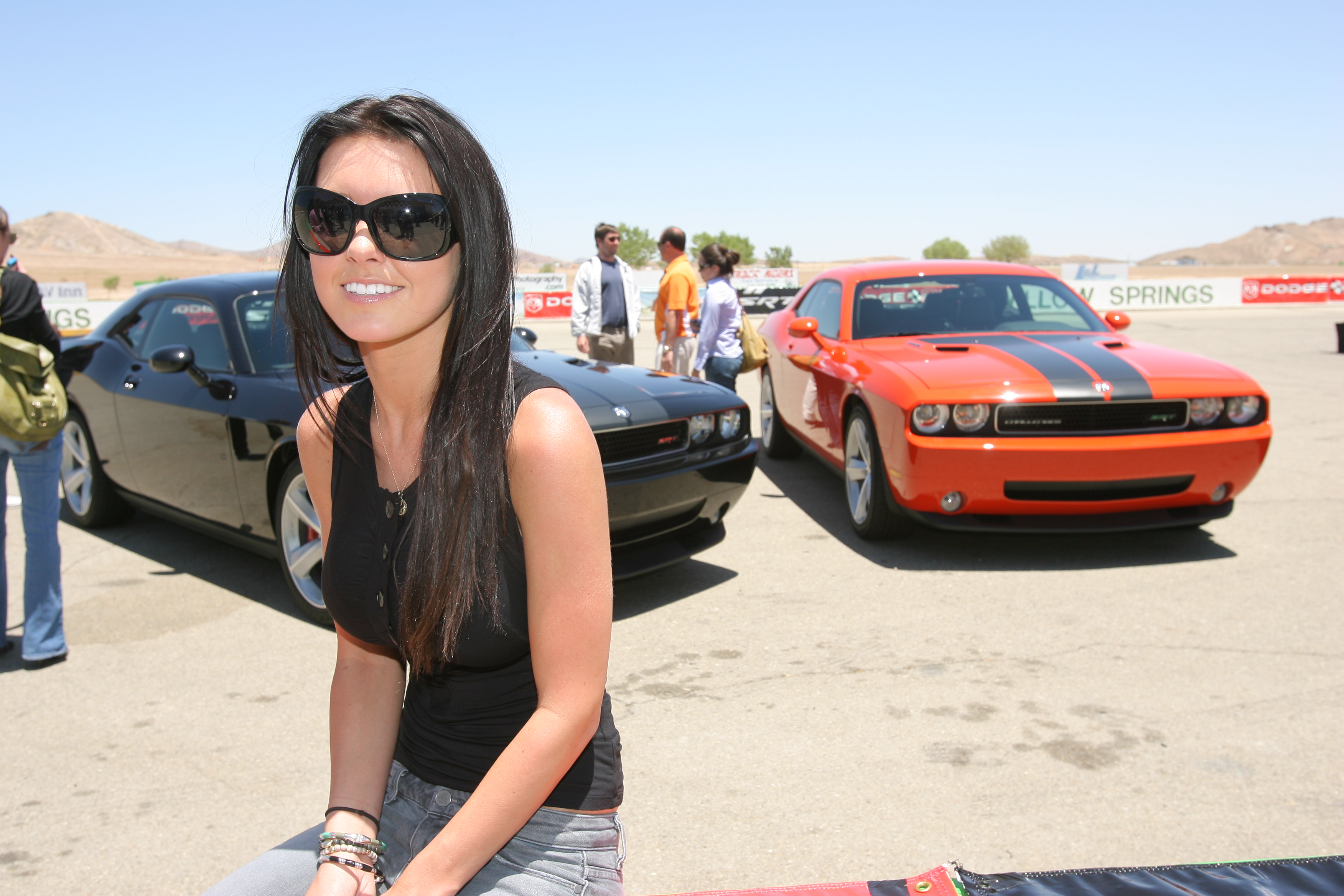 Audrina Patridge from the MTV hit, The Hills, prepares for a fun day driving the All-New Dodge Challenger.